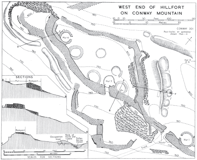 Plan of later enclosure at western end of Caer Seion hillfort.